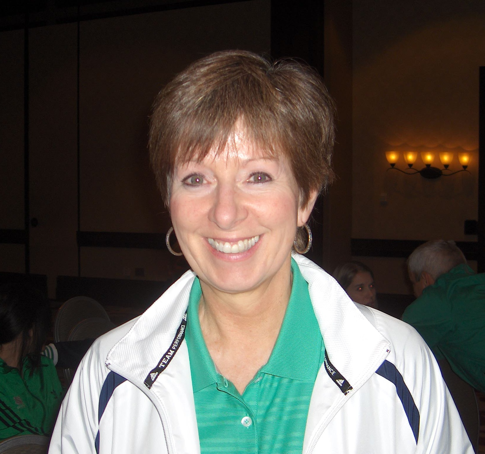 Photo of Muffet McGraw taken at the 2011 Women's basketball Coaches Association Convention in Indianapolis, Indiana.